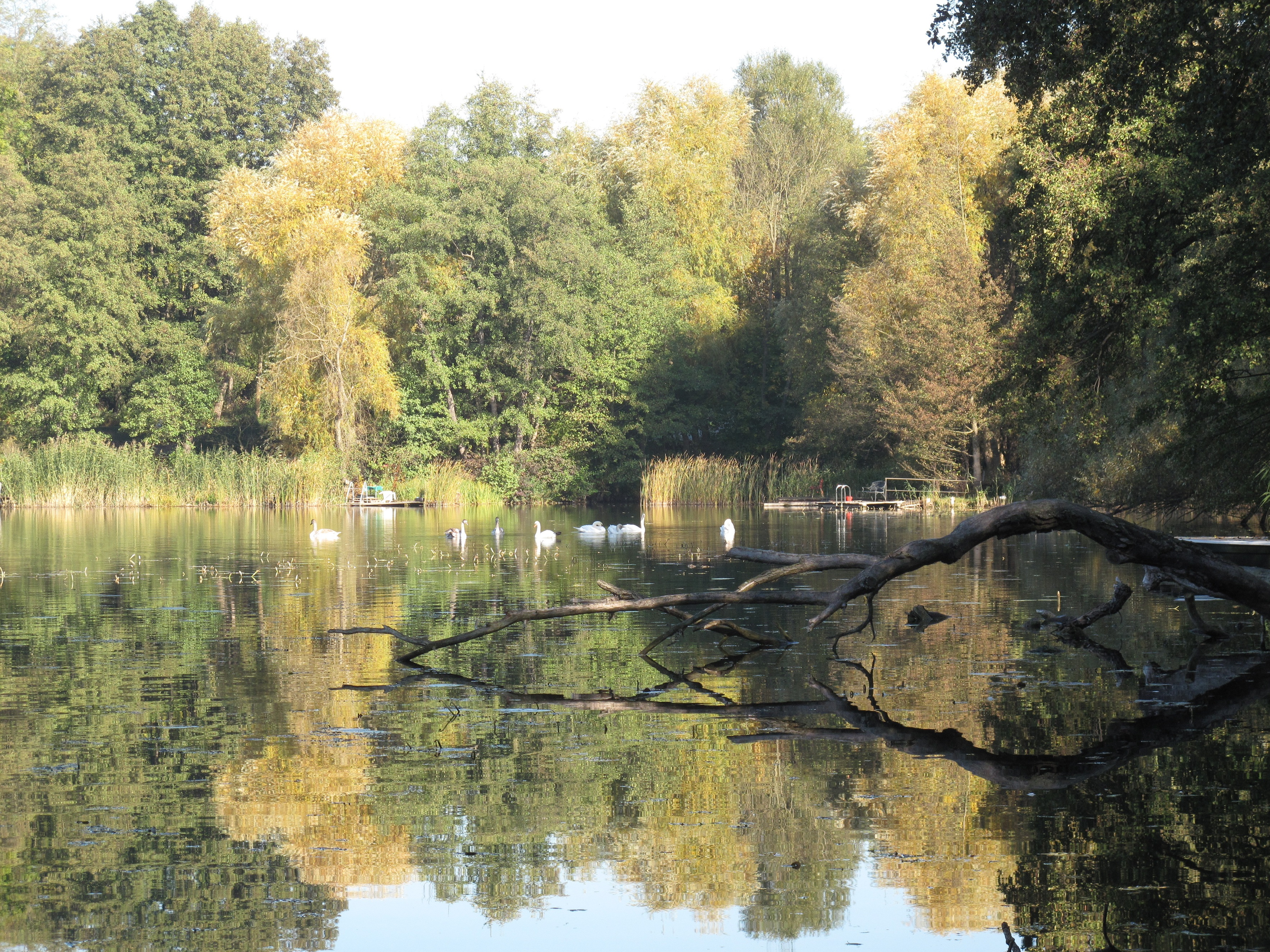 Griepensee, view from the park of the rehabilitation clinic at the southern shore. The Griepensee is a lake in Buckow, District Märkisch-Oderland, Brandenburg, Germany. The lake covers six hectare and has a depth of max. four meters. It is crossed by the river Stobber. In the west borders the Schlosspark Buckow (palace ground) to the lake and in the south the park of the Immanuel-Reha-Klinik Märkische Schweiz (rehabilitation clinic).